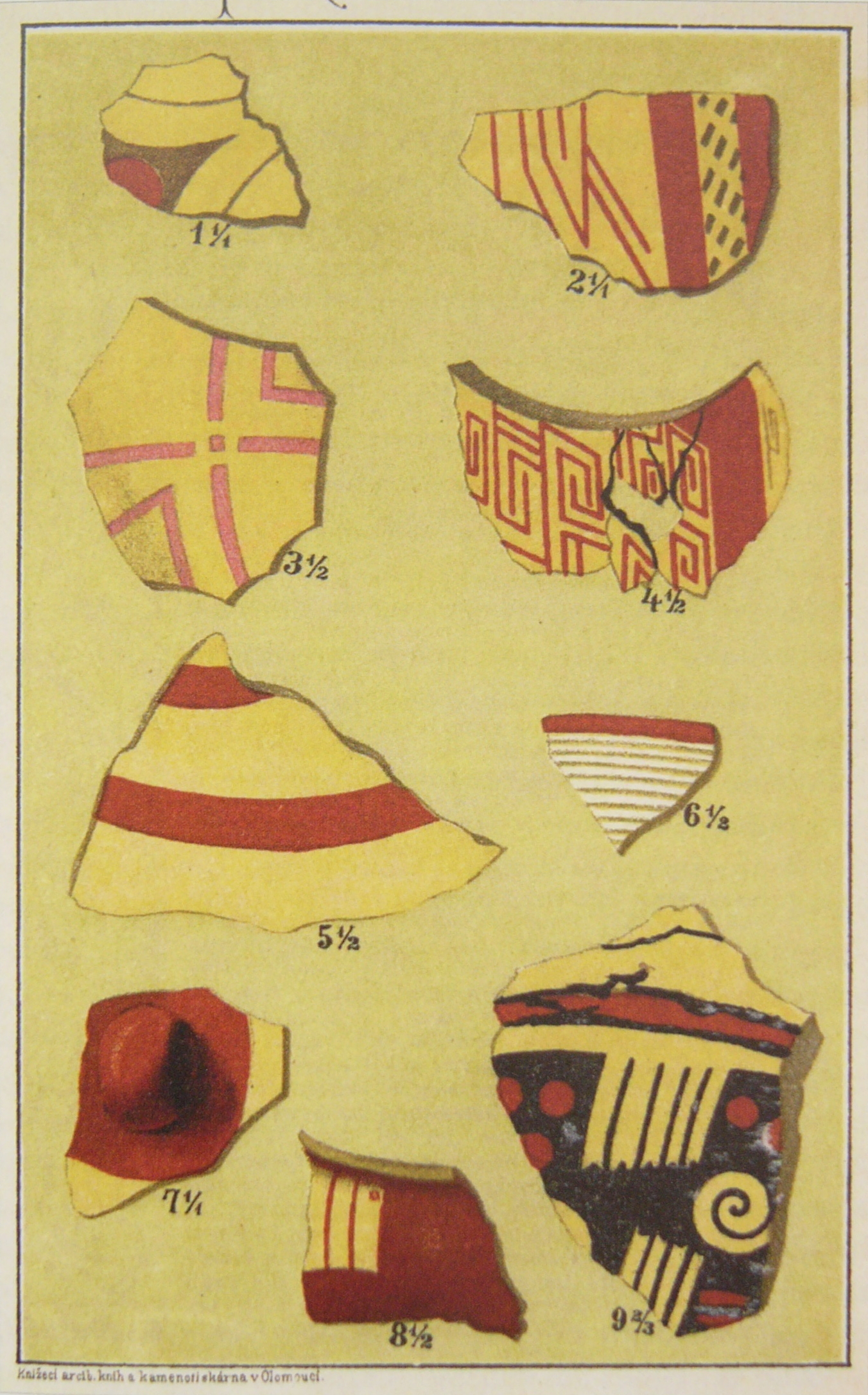 Neolithic Moravian painted pottery from locality Znojmo-Novosady